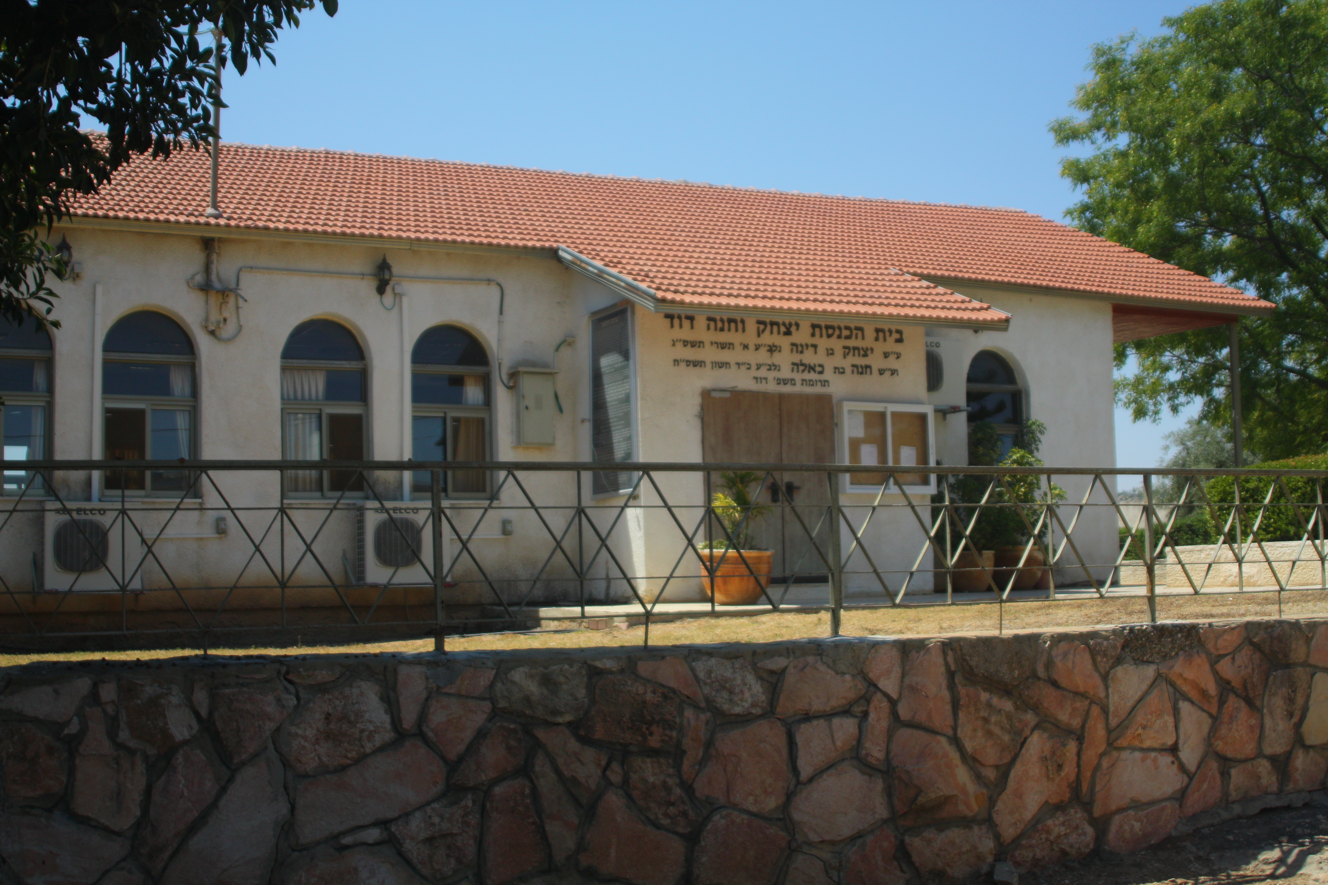 Syngaogue of Neve Michael